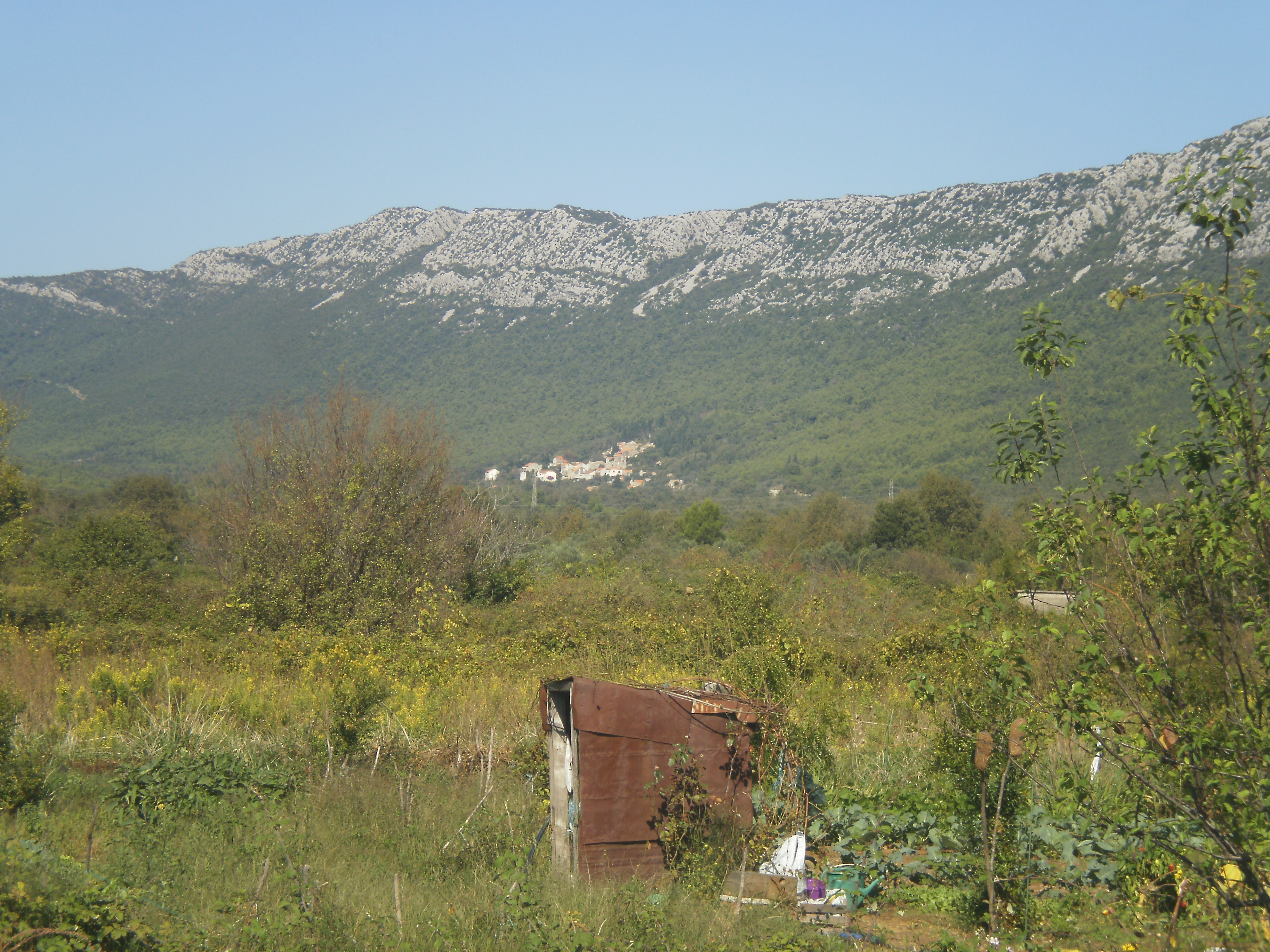 Česvinica as seen from Ston OLYMPUS DIGITAL CAMERA